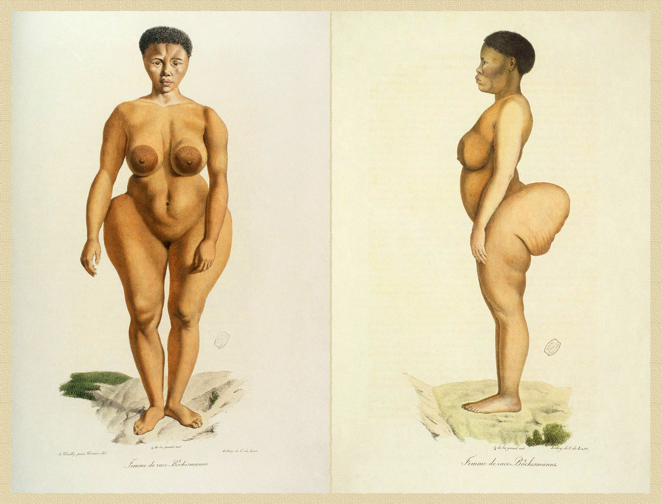 Sawtche, named Sarah "Saartjie" Baartman in Europe (ca.1790 - 1815), called the Hottentot Venus, captured in South Africa, exhibited in Europe as a freak show attraction, forced into prostitution, studied as a specimen of "Woman of race Bôchismann" in 1815 by Étienne Geoffroy Saint-Hilaire and Georges Cuvier, which deduced theories on the inferiority of some human races. These images are taken from Volume II of the "Illustrations of the Natural History of Mammals." They are found between the representations of a Corsican mouflon (female), and a langur (male)...